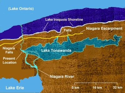 Glacial Lake Tonawanda, showing the movement of Niagara Falls. © 2004 Matthew Trump